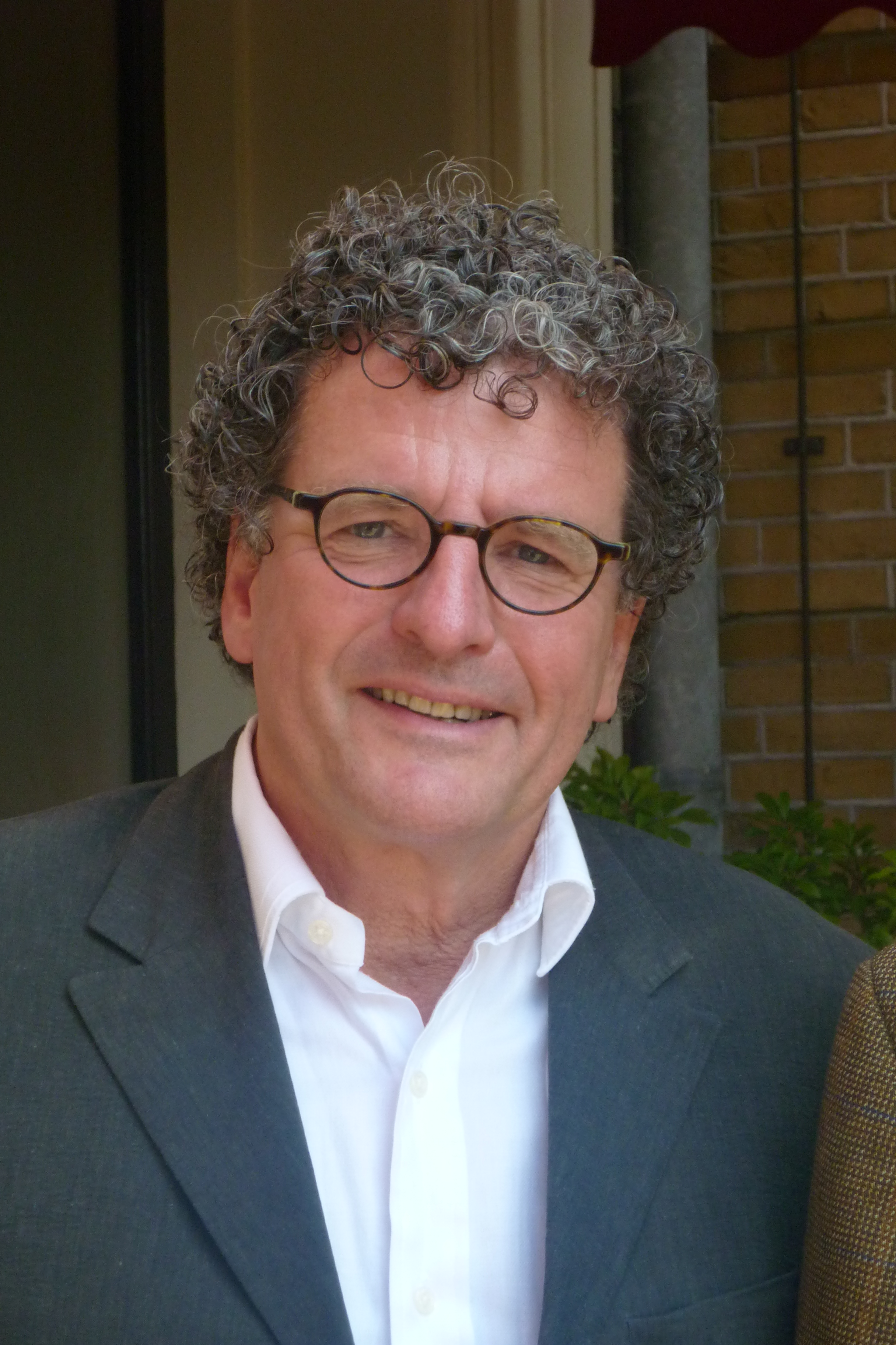 Edwin de Vries, Dutch scriptwriter